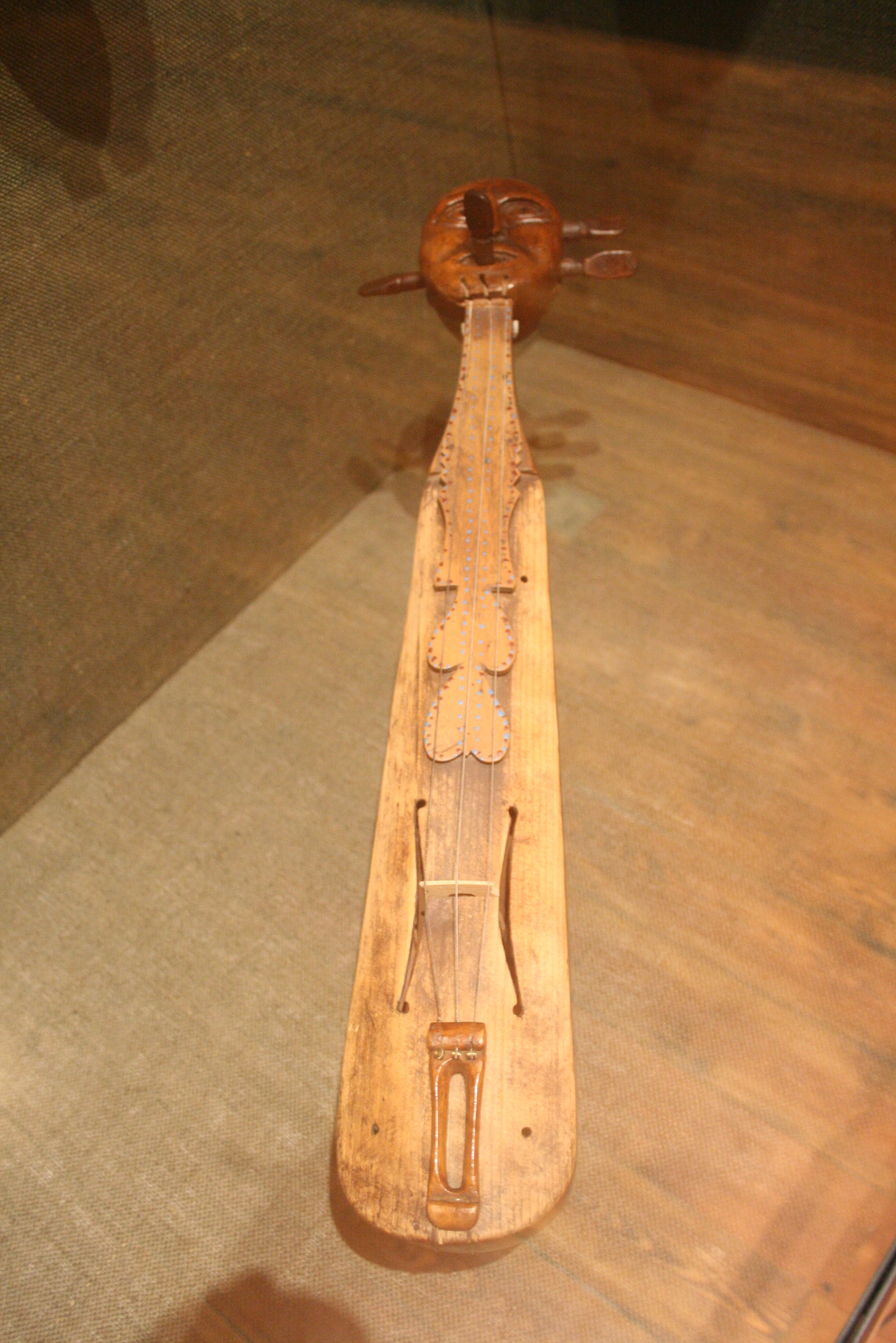 Greek Kemenche in the Museum of Greek Folk Instruments in Athens